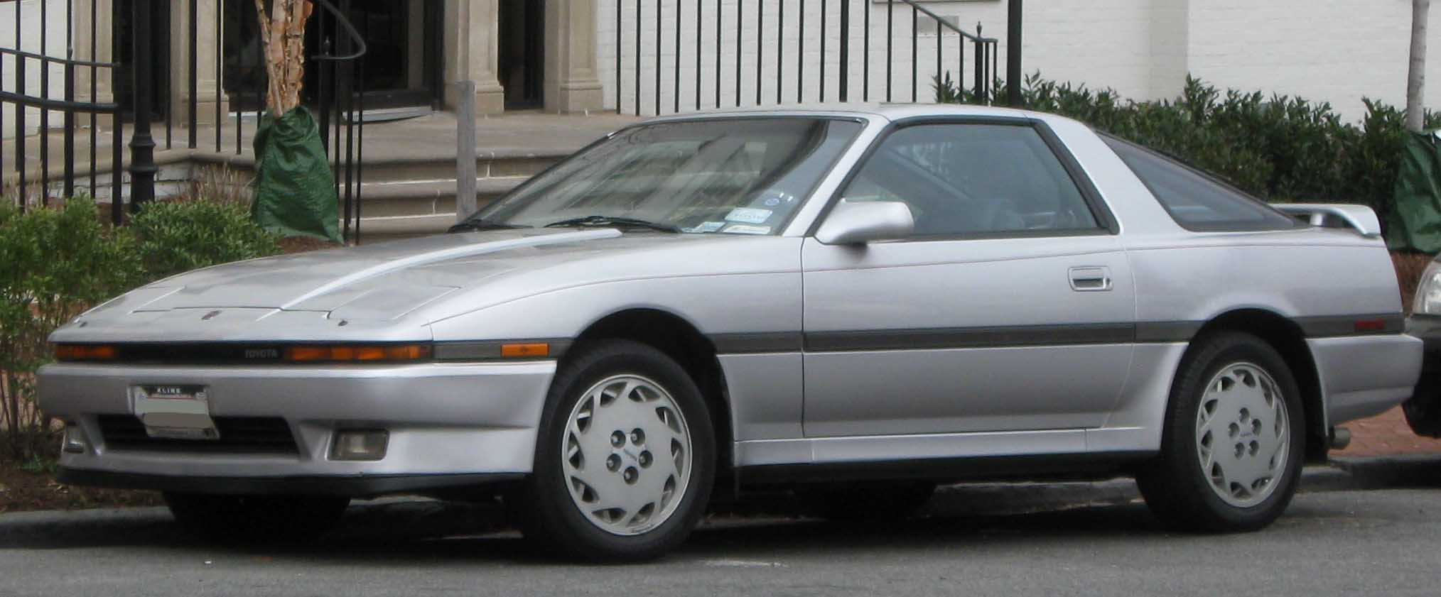 Toyota Supra photographed in Washington, D.C., USA.